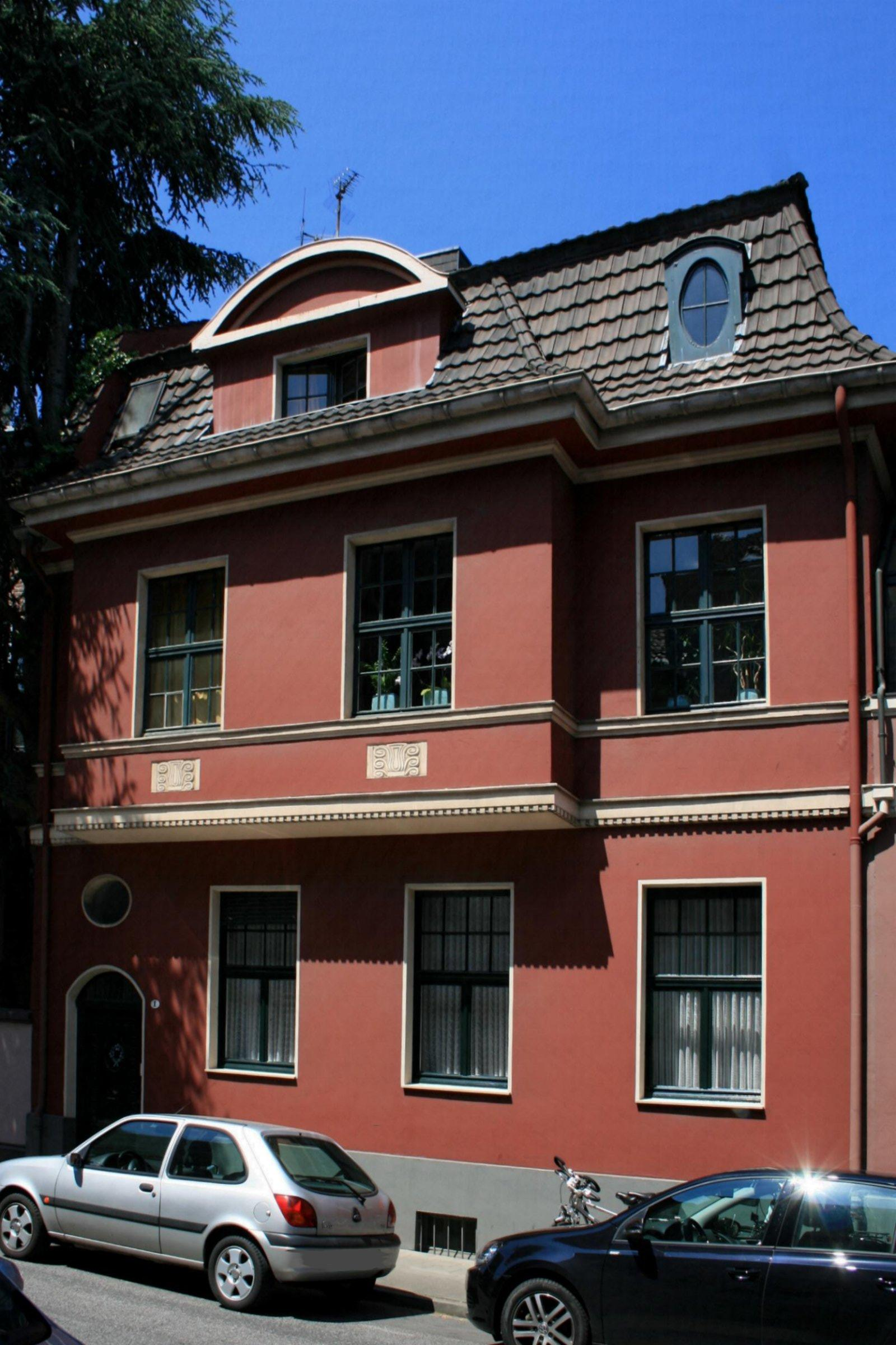 Cultural heritage monument No. F 009 in Mönchengladbach